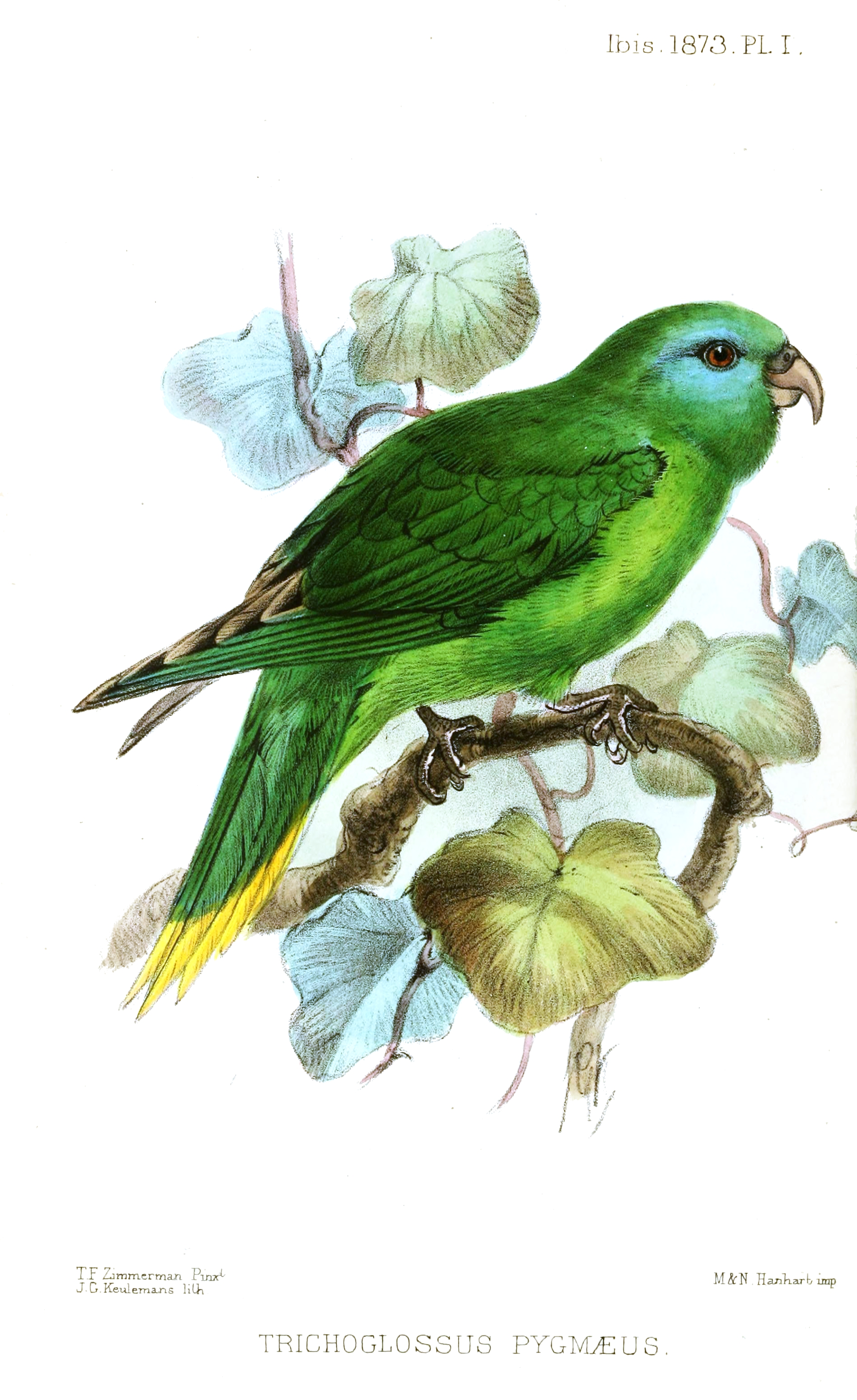 « Trichoglossus pygmaeus » = Charmosyna palmarum (Palm Lorikeet)